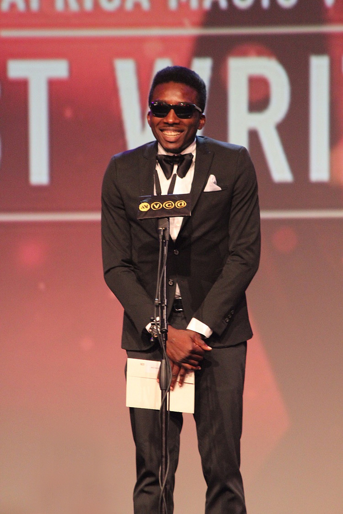 Bovi at the 2014 Africa Magic Viewers Choice Awards